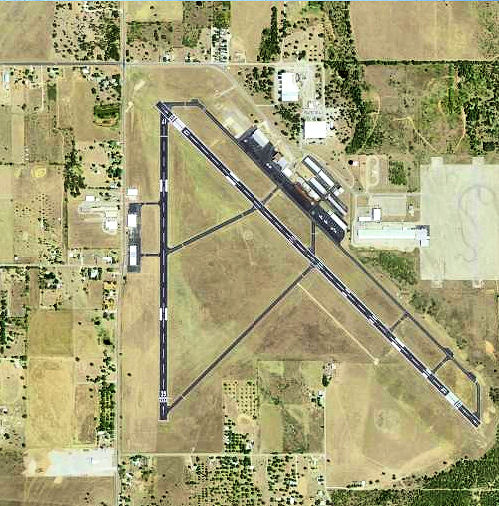 USGS digital orthophoto of Mineral Wells Airport in Texas